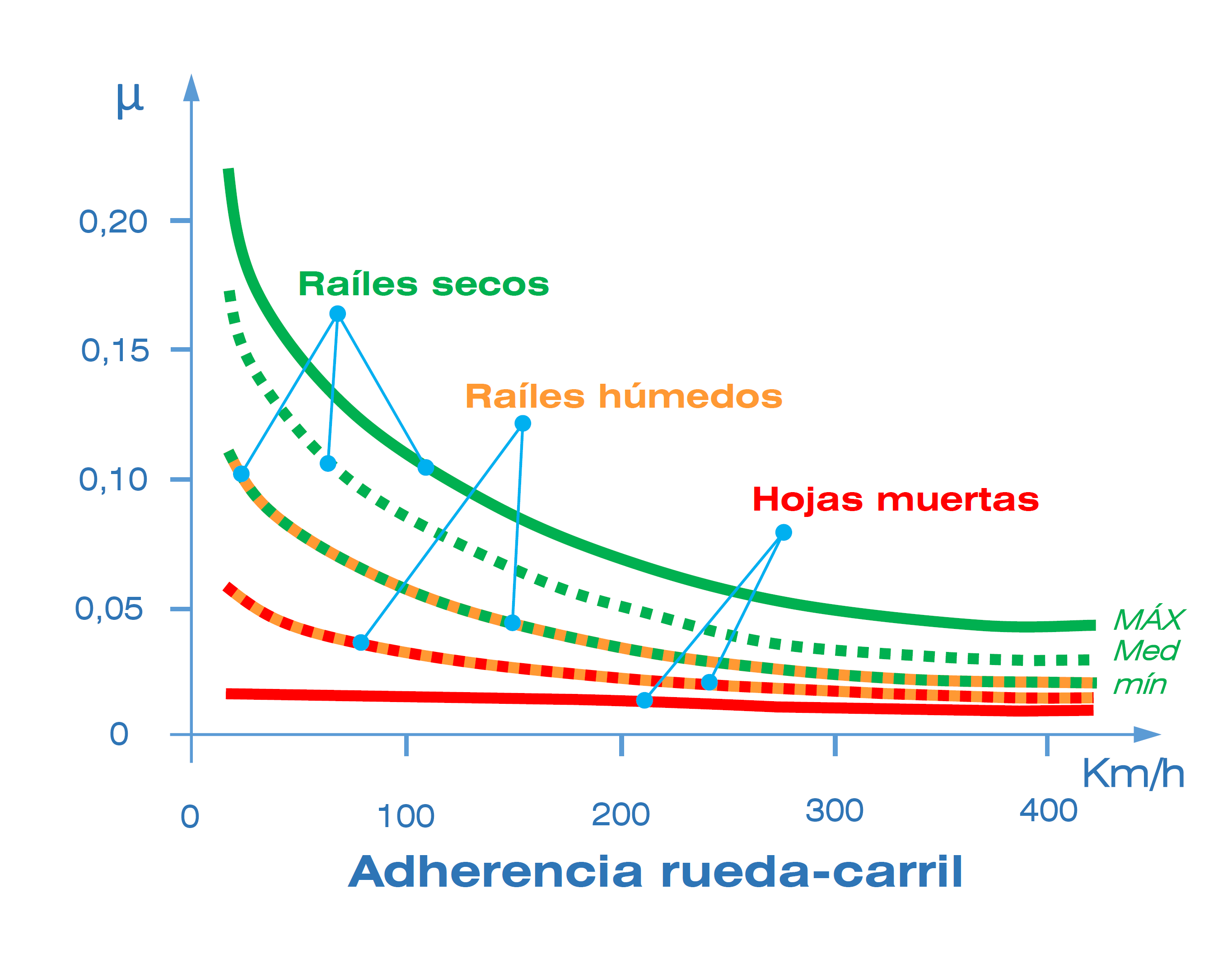 adhesion wheel/rail graph